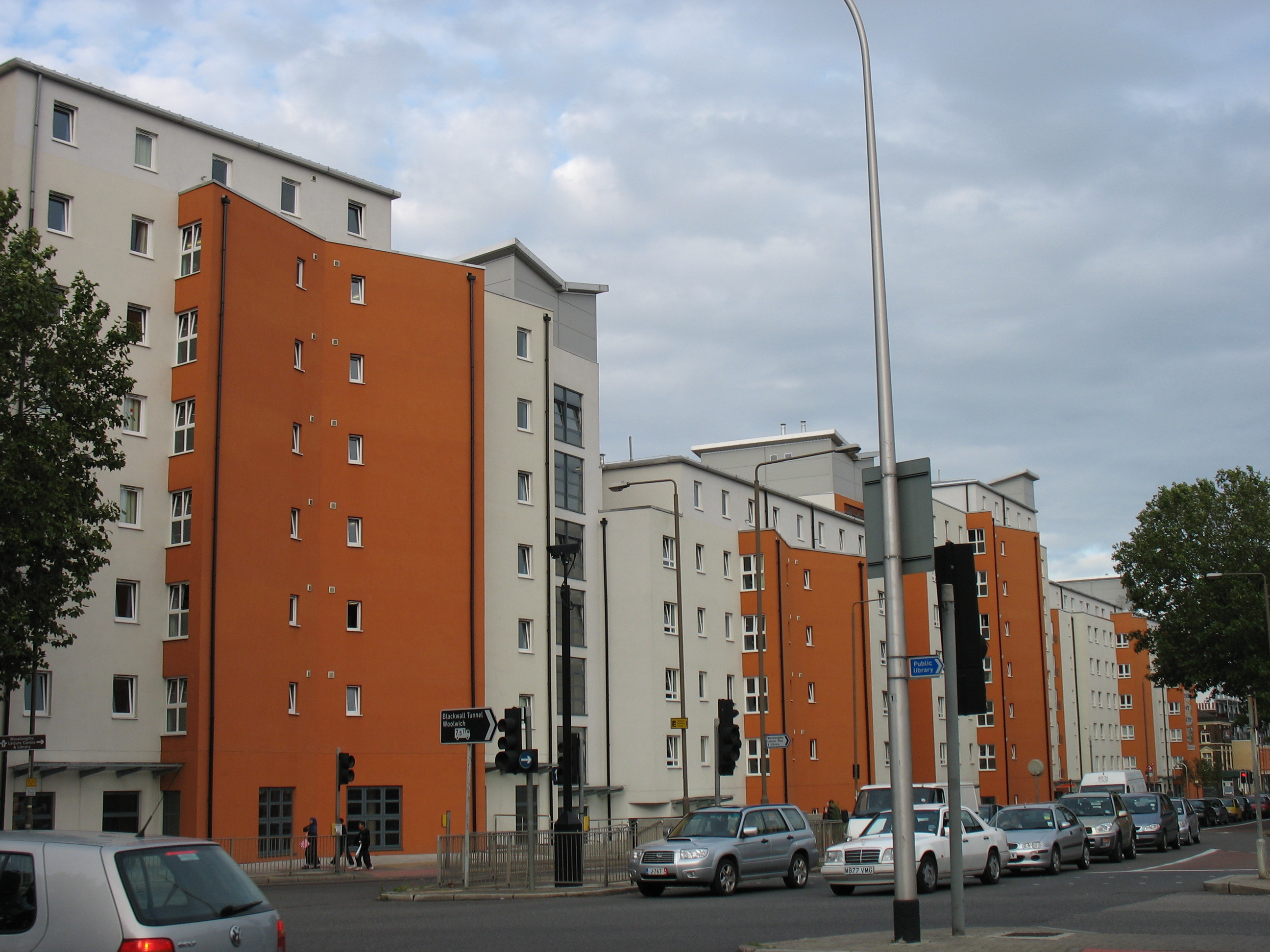 McMillan Student Village, Halls of Residence of the University of Greenwich from the intersection of Creek Road and Deptford Church Street, Deptford, LondonR.I.P., Rac Mac